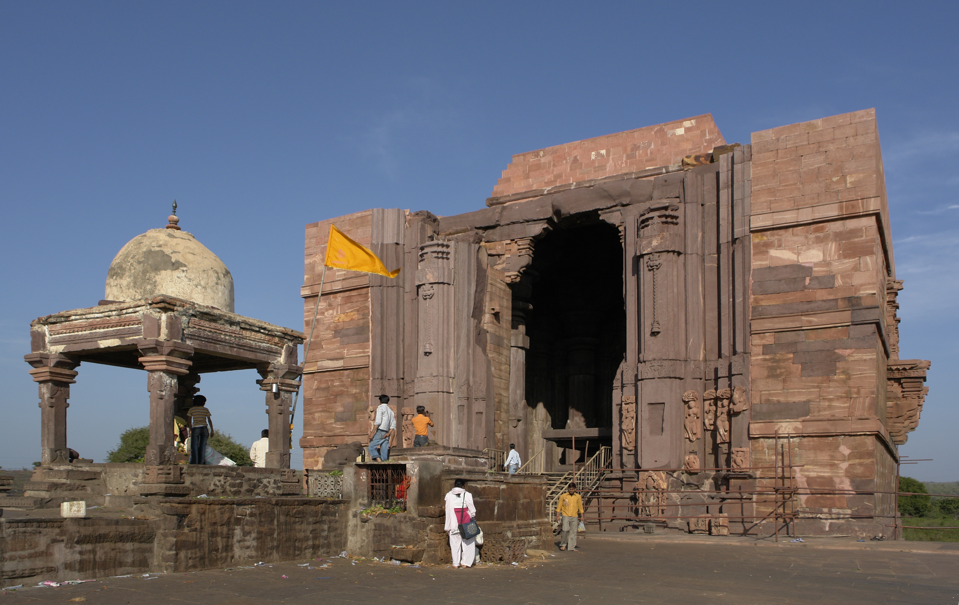 Temple of Bhojpur, Raisen district, Madhya Pradesh, India.